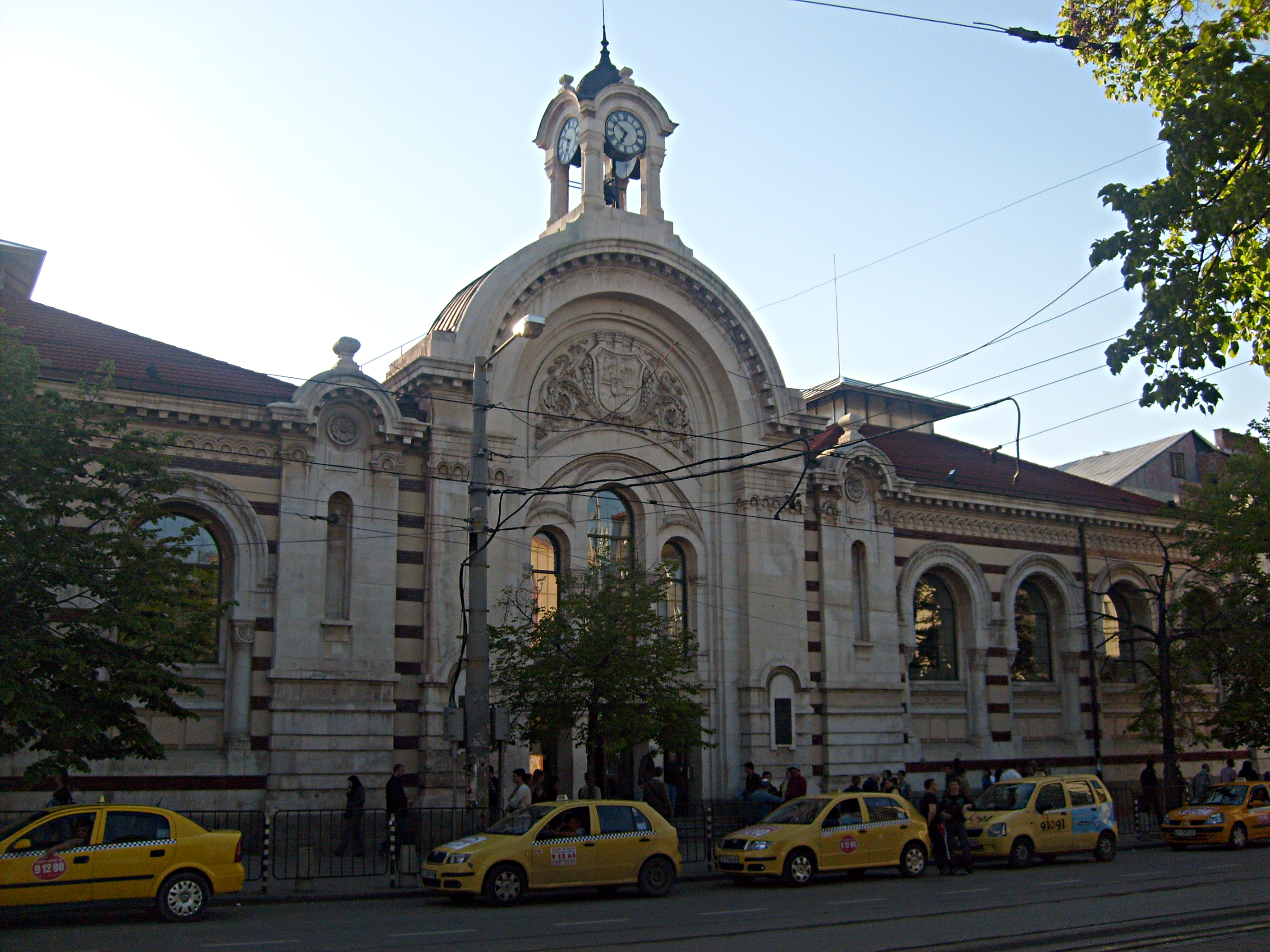 Central Sofia Market Hall, Sofia, Bulgaria